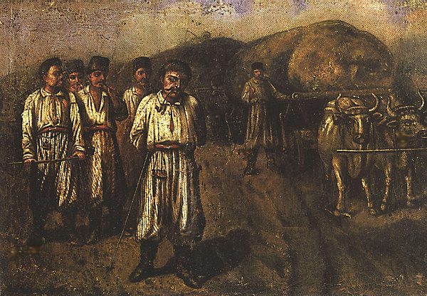 Chumaks. Sloboda Ukraine.